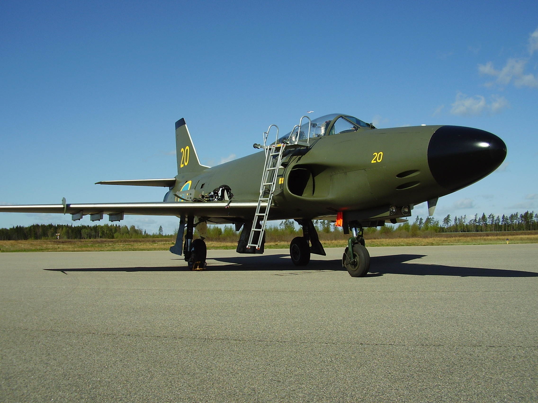 Photo of Saab 32 Lansen at Växjö Air Show 2012